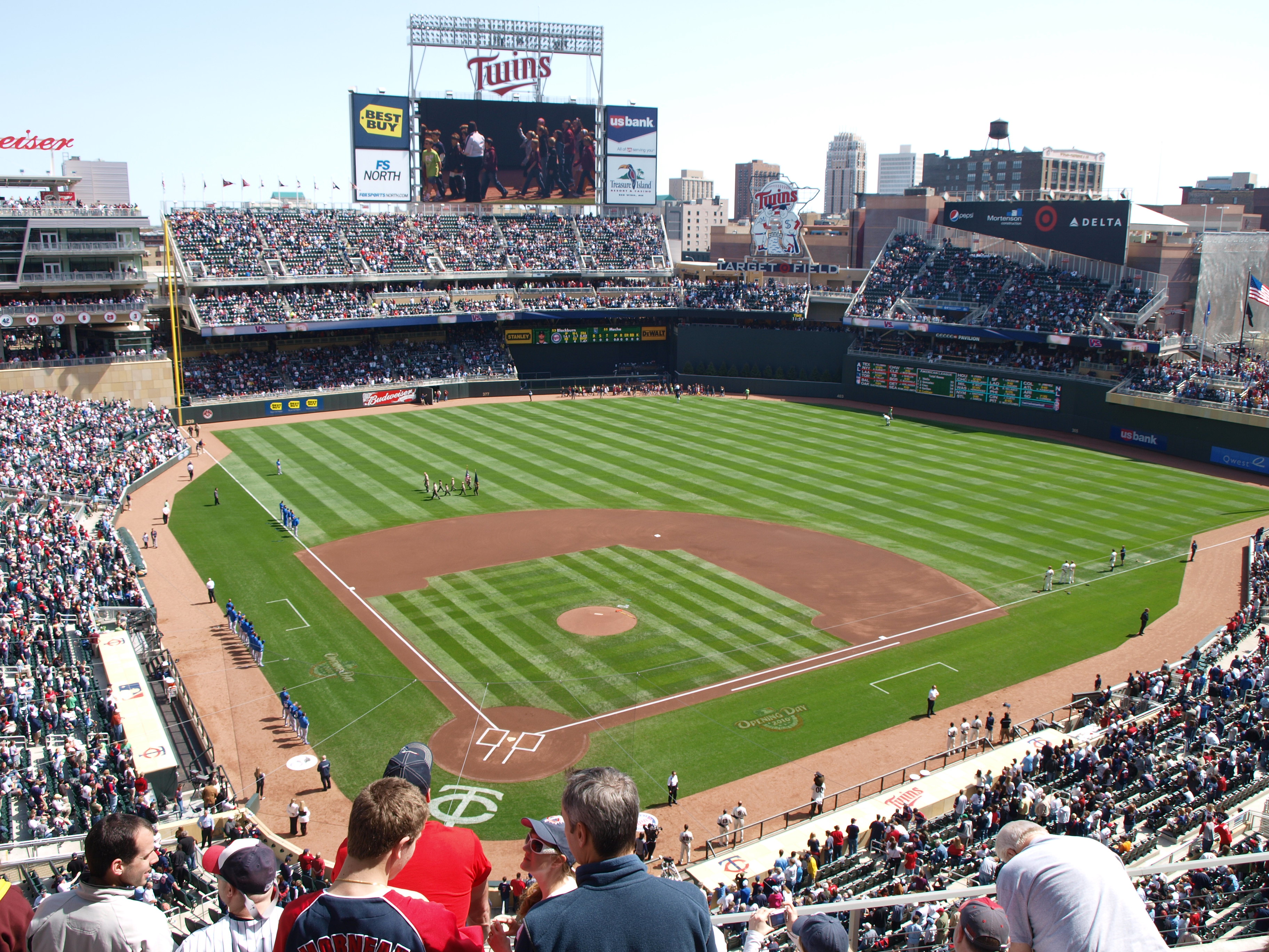 Target Field on April 17, 2010